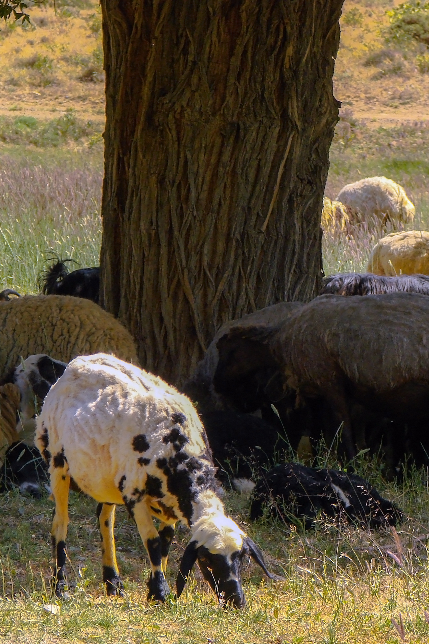 The sheep is a quadrupedal, ruminant mammal typically kept as livestock. Like all ruminants, sheep are members of the order Artiodactyla, the even-toed ungulates. Although the name "sheep" applies to many species in the genus Ovis, in everyday usage it almost always refers to Ovis aries. Numbering a little over one billion, domestic sheep are also the most numerous species of sheep. An adult female sheep is referred to as a ewe (/juː/), an intact male as a ram or occasionally a tup, a castrated male as a wether, and a younger sheep as a lamb Acèh: Bubiri atawa keubiri , saboh makhluk peuneujeuët Allah ta'ala. Bulèëjih na nyang putéh, na nyang keulabèë. Eumpeuënjih naleuëng, ôn-ôn kayèë. Binatang nyoë karap saban lagèë kibaih domba, nyang na bida bacut lungkèë bubiri teupat, meunyoë kibaih lungkèëjih meugulông.